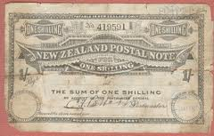 New Zealand 1907 One Shilling Postal Note. According to the description on eBay: "New Zealand one shilling postal note date stamped on the front 4th May 1907 and on the back 8th May 1907. This is the exceedingly rare type with serrated edge (no counterfoil but would have originally had one - apparently the first NZ issue to do so). Listed in Jack Harwood's 2010 publication 'New Zealand Postal Notes 1886-1986' as "Type I, none recorded" and listed in clean sound condition at US$2500. This example is far from that - very fragile with numerous tears, holes and some paper loss. Very large tears to left and right (one is well over 6cm, one well over 3cm), centre split etc.Graffiti to front top right. Poor condition but should display reasonably well when flat, possibly unique."